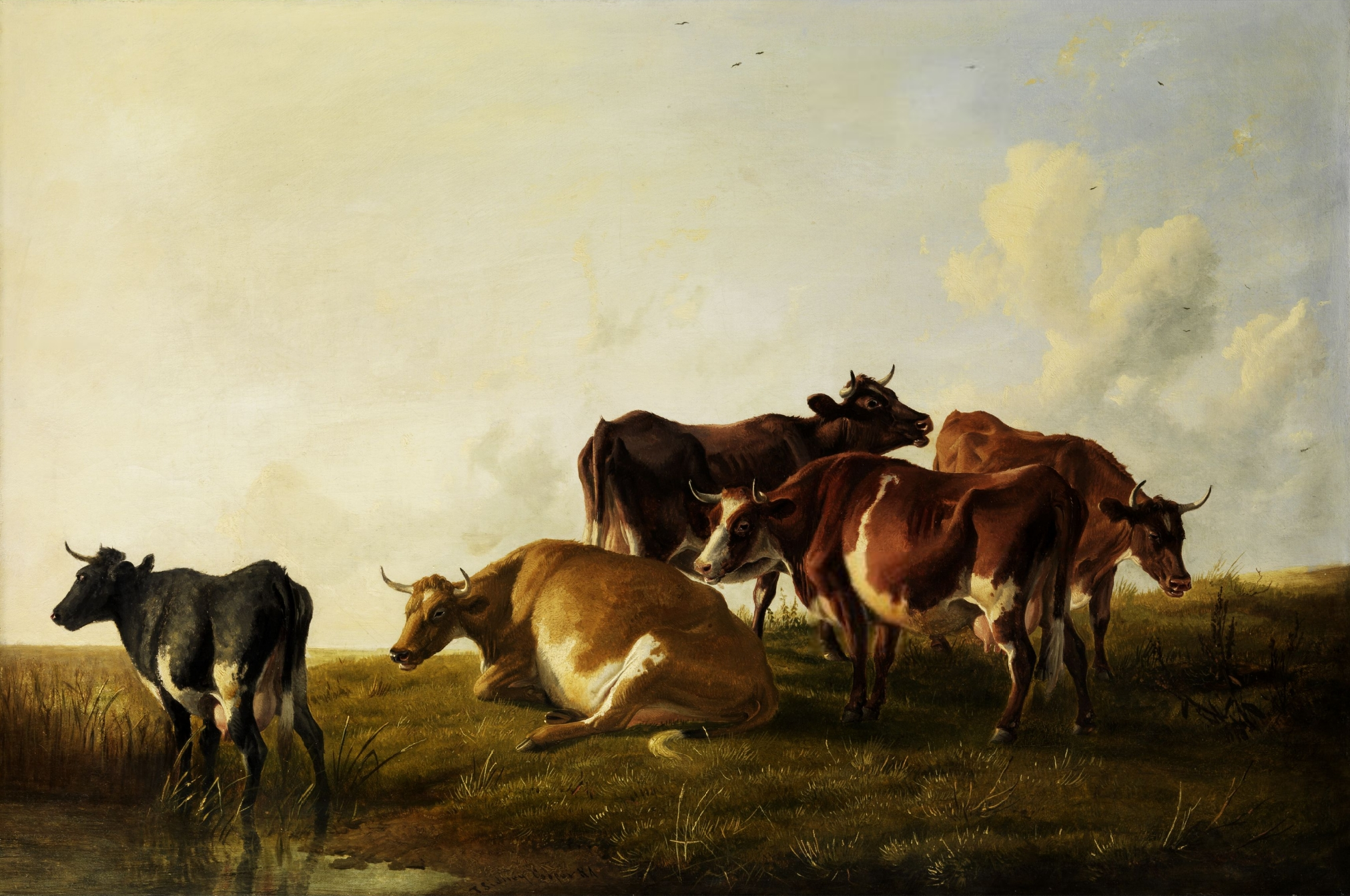 Cattle in the pasture. oil on canvasmedium QS:P186,Q296955;P186,Q12321255,P518,Q861259. 52 x 76 cm.